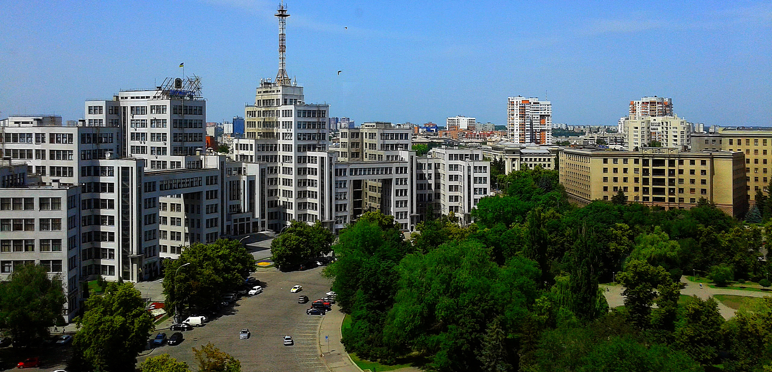 (44) PANORAMIC VIEW ON CENTRAL DISTRICT IN CITY OF KHARKIV STATE OF UKRAINE PHOTOGRAPH BY VIKTOR O LEDENYOV 20160621